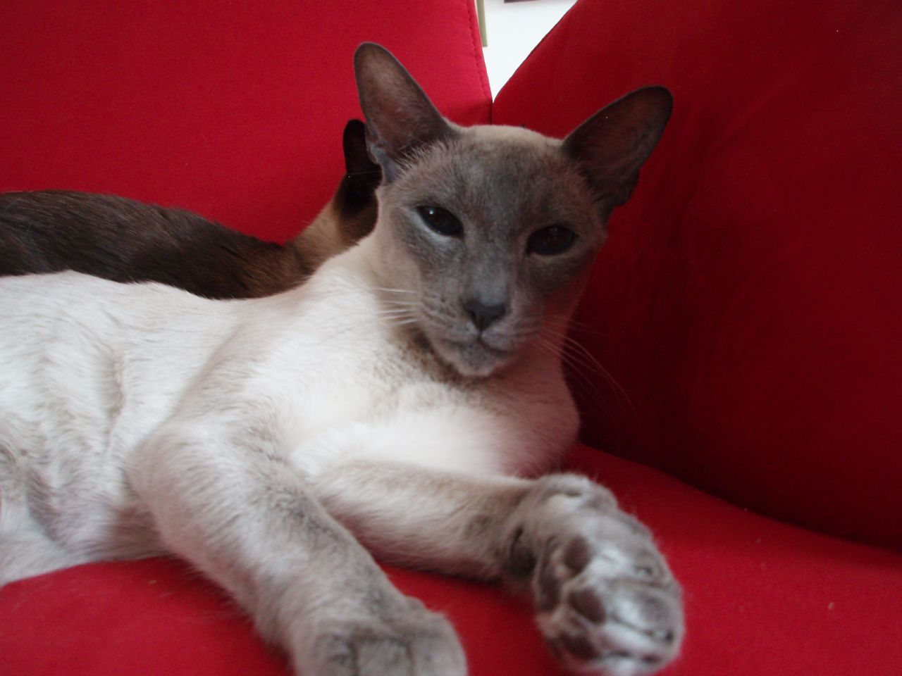 Siamse cat called Wika from Poland